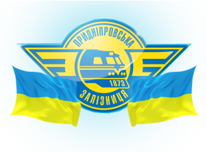 Near-Dnipro Railways